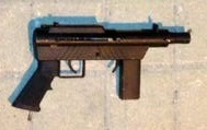 One of four Palestinian SMGs seized by the IDF during Operation Brother’s Keeper.